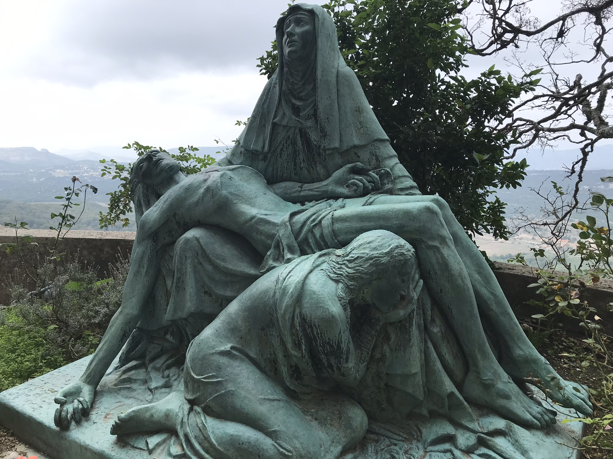 Sculpture of Mary, Christ and Mary Magdalene at Mary Magdalene Grotto in Plan d’Aups